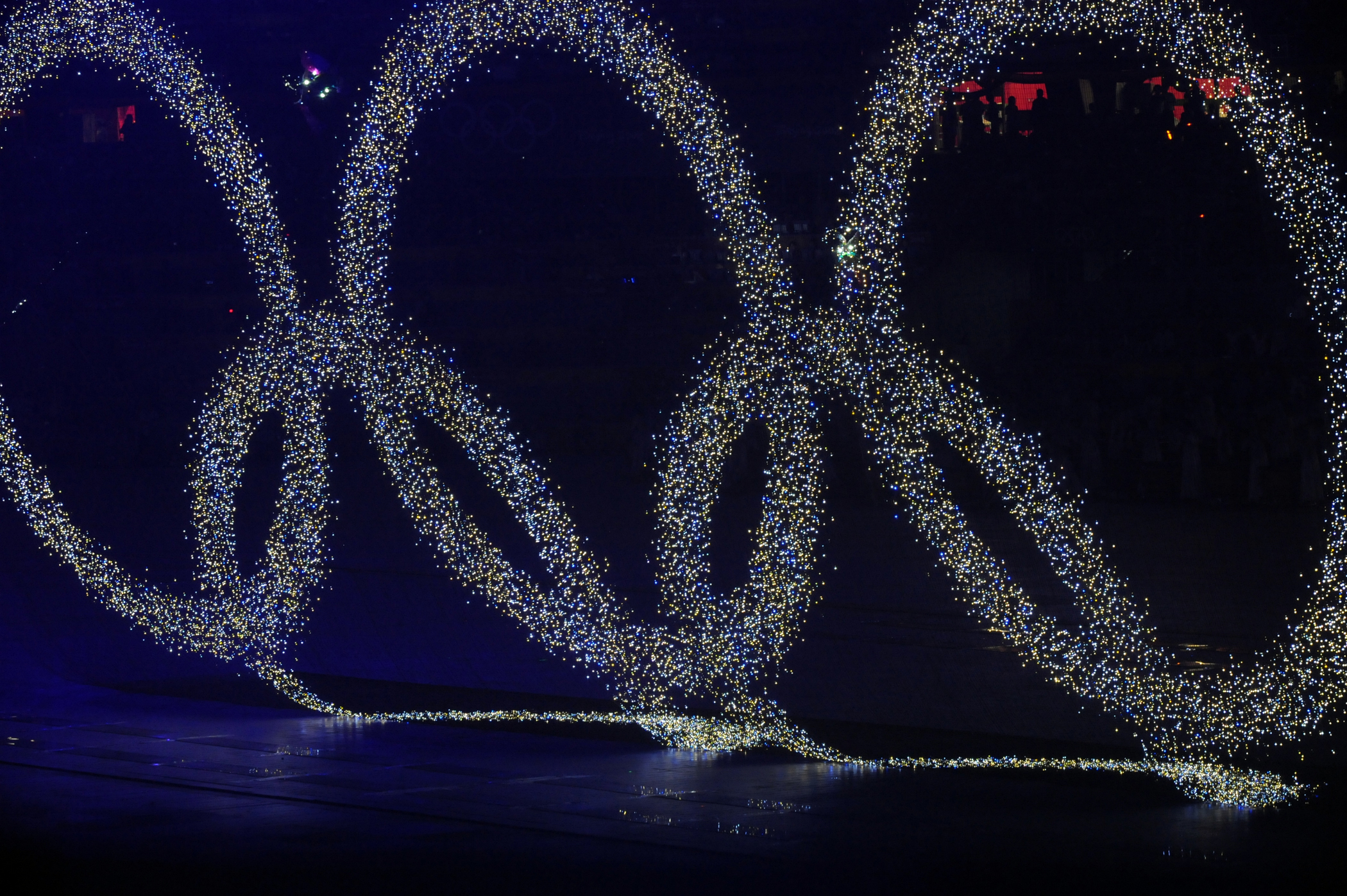 Olympic rings rise during the Opening Ceremony of the Beijing Olympics, August 8th, 2008.